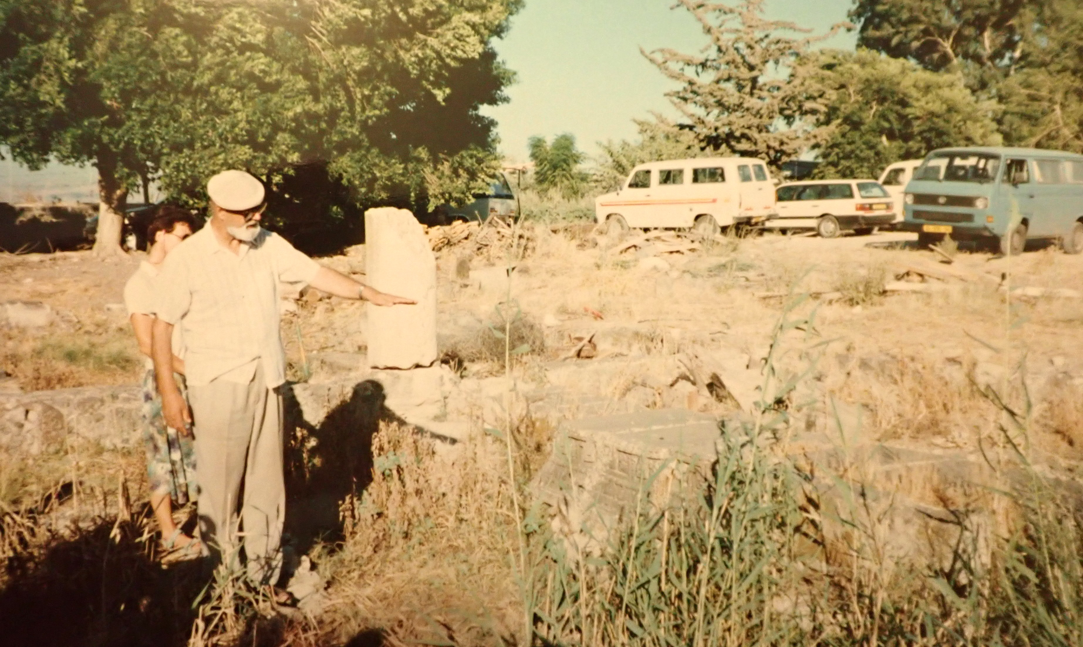 Father Bargil Pixner explaining the ruins of Magdala in Israel